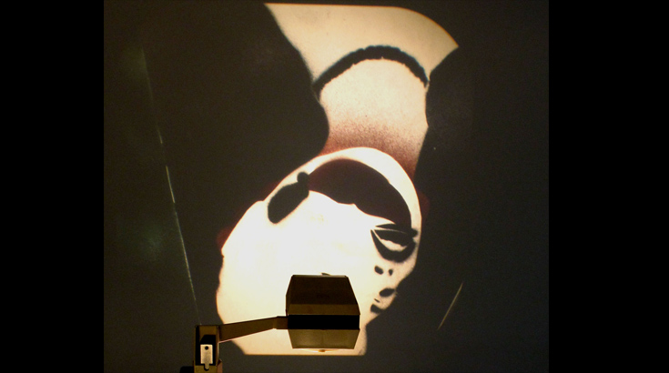 Ofri Cnaani, The Vanishing Woman, 2010, Live-cinema performance